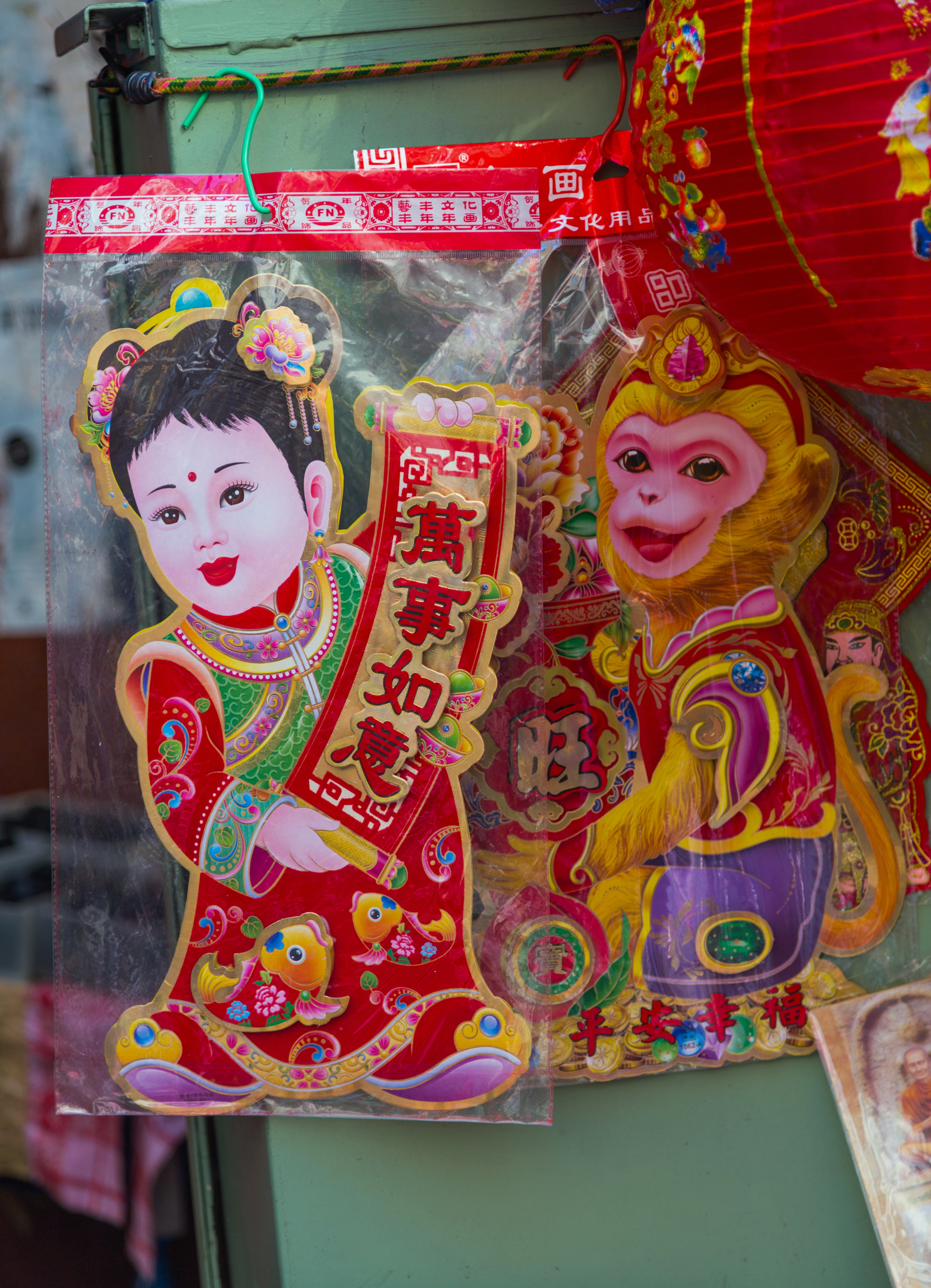 Chinese souvenirs. Yaowarat Road. Samphanthawong District, Bangkok, Thailand.